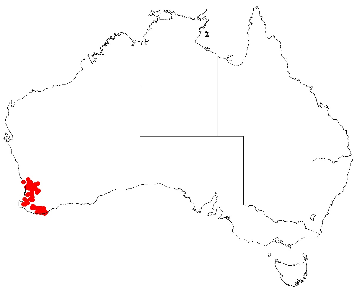 Distribution of collections of Anigozanthos bicolor species within Australia (Data CC from Australia's Virtual Herbarium)